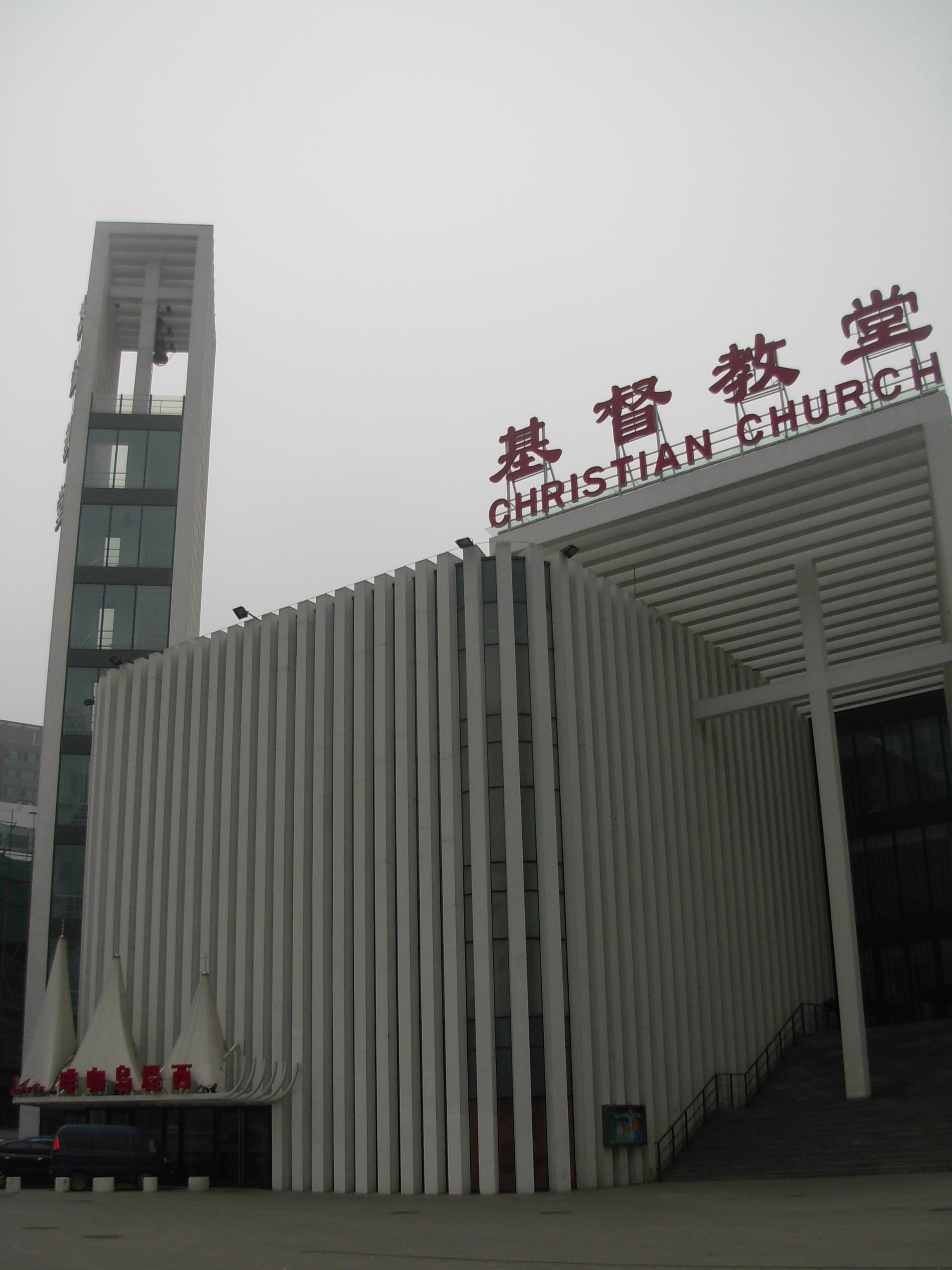 Haidian Christian Church in Zhongguancun, Haidian District, Beijing, China